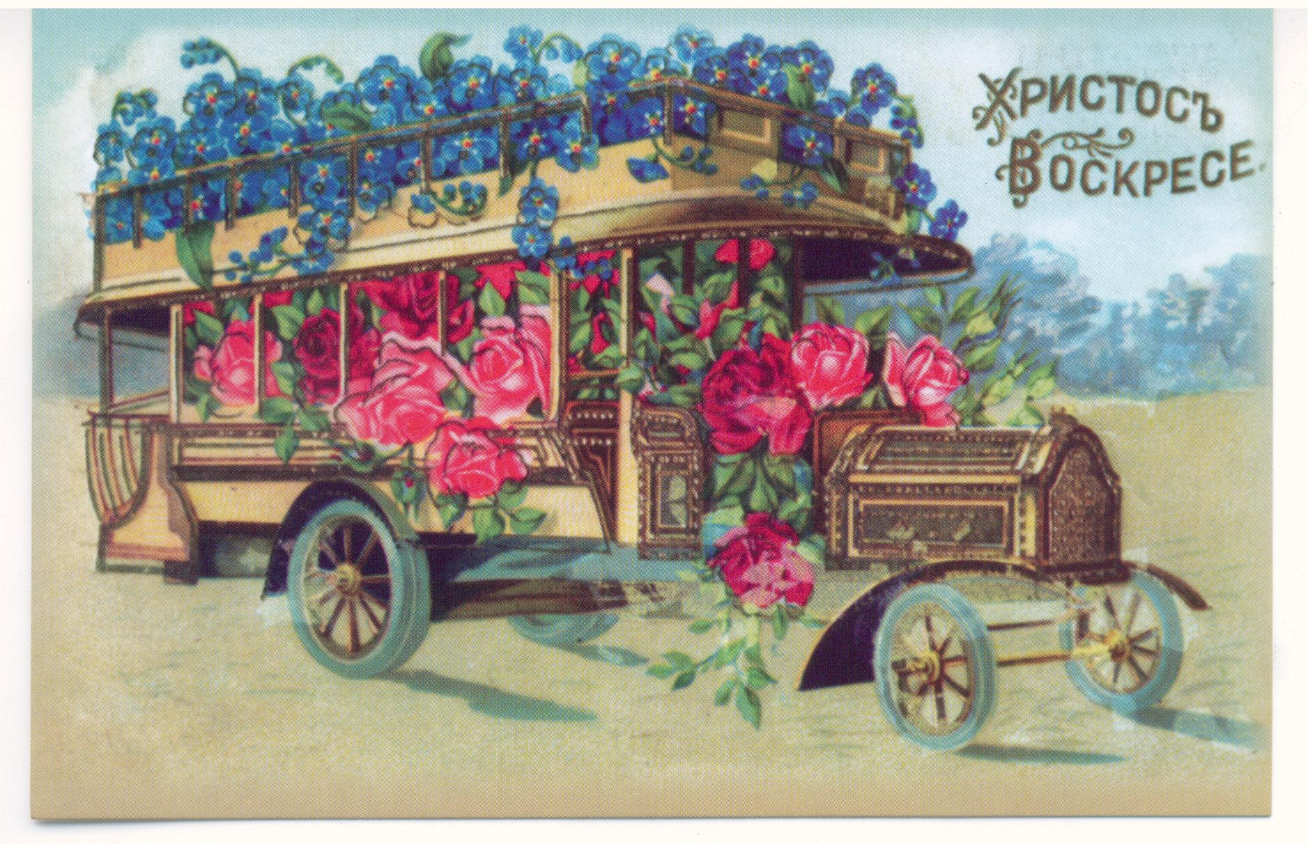 Christ is risen from the dead! A Russian Empire postcard, with a two-deck bus (Lailand?) depicted.